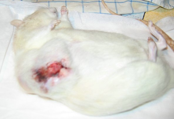 This rat has multiple malign tumour of the mammarian gland. The biggest tumour already was removed surgically. At the age of 1 year and 10 months, this pet rat was put to sleep because of big eruptions with necrosis of the tumours. Pet rat called Amani Abricot ° 21/07/04 - + 26/05/06 Photo: Corry Note